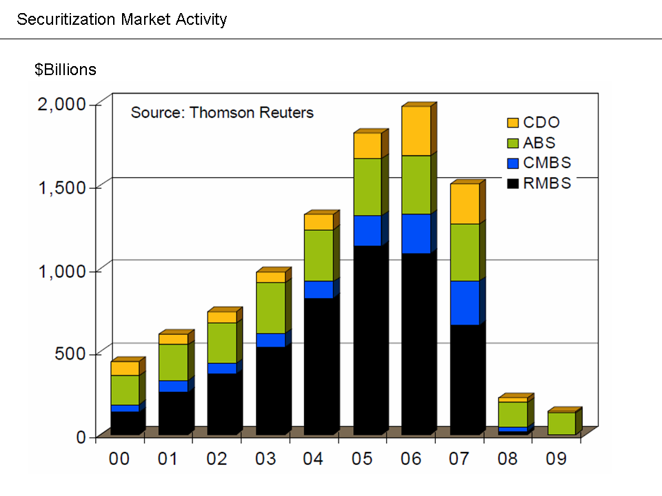 Image from Economist Mark Zandi's FCIC Testimony Explanation From Economist Mark Zandi's January 2010 testimony to the Financial Crisis Inquiry Commission: "The securitization markets also remain impaired, as investors anticipate more loan losses. Investors are also uncertain about coming legal and accounting rule changes and regulatory reforms. Private bond issuance of residential and commercial mortgage-backed securities, asset-backed securities, and CDOs peaked in 2006 at close to $2 trillion...In 2009, private issuance was less than $150 billion, and almost all of it was asset-backed issuance supported by the Federal Reserve's TALF program to aid credit card, auto and small-business lenders. Issuance of residential and commercial mortgage-backed securities and CDOs remains dormant."[1] Banks and other financial institutions packaged various types of loans (including mortgages) into securities and sold them to global investors. This is called securitization. In exchange for purchasing the investment, the investor receives a right to the cash flows from the underlying loans specified for the security. The chart shows how this financing source dried-up, meaning that non-prime mortgages and other types of loans could not be originated and sold to investors. ↑ Testimony of Mark Zandi to Financial Crisis Inquiry Commission-January 2010